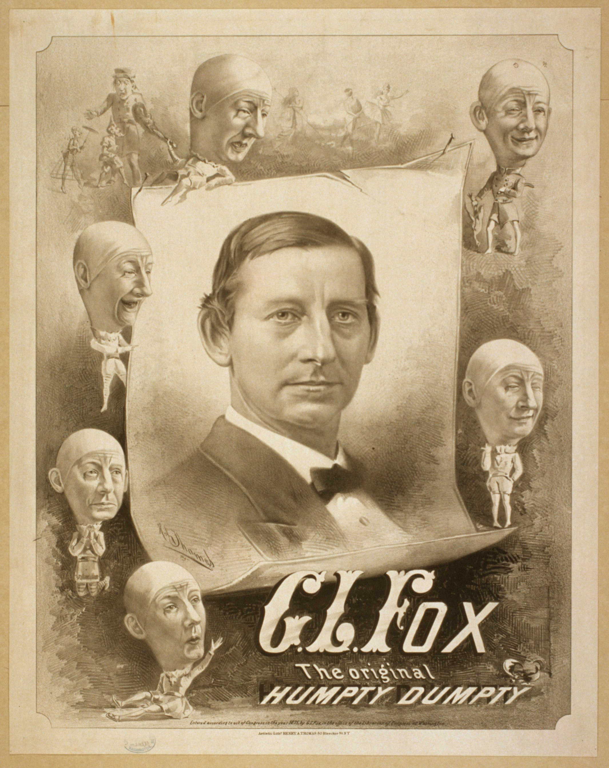 Title: G.L. Fox the original Humpty Dumpty. Abstract/medium: 1 print : black and white lithograph ; sheet 69 x 55 cm. (poster format)